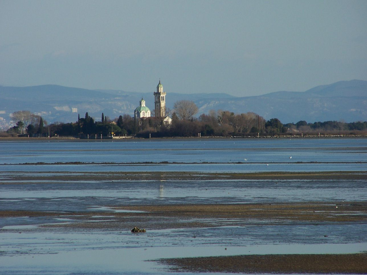 Picture of the sanctuary of Barbana, located on an island of the lagoon of Grado, Friuli, Italy. Picture taken by fur:User:Klenje